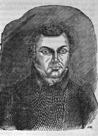 Stefanos Kanellos (1792-1823): Greek scholar and revolutionist